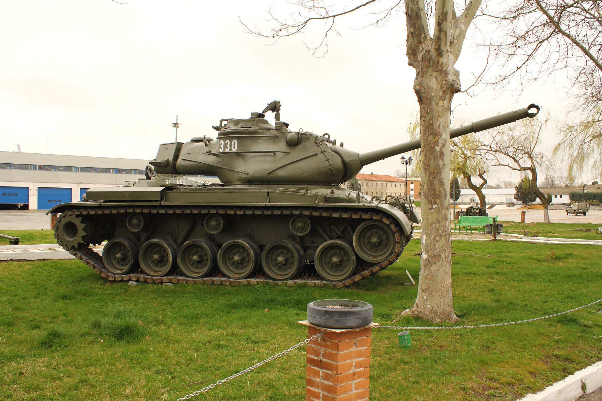 Tanque medio M-47 General Patton, con cañón de 90 mm. Empezó a fabricarse en Estados Unidos en 1951, construyéndose 8.576 unidades. El Ejército Español recibió sus 13 unidades iniciales el 12 de febrero de 1954, llegando a operar 495 tanques de este tipo. Entre 1975 y 1980 329 tanques fueron modernizados a la versión M-47E1 y 46 a la versión M-47E2. En España se hicieron famosos porque fueron los tanques que el general Jaime Milans del Bosch sacó a las calles de Valencia durante el intento de golpe de Estado del 23 de febrero de 1981. En 1990 se inició la sustitución de los M-47 aún activos -muchos de ellos serían desguazados- por tanques M-60. En el museo de El Goloso se conservan dos M-47. Uno de ellos -el situado junto a la capilla de La Purísima- todavía funciona, y luce los emblemas del Regimiento de Caballería Ligero Acorazado "Lusitania" nº 8. Armored Units Museum of El Goloso Medium Tank M-47 General Patton, with 90mm cannon. It began to be manufactured in the United States in 1951, building 8,576 units. The Spanish Army received its initial 13 units on February 12, 1954, reaching 495 tanks of this type. Between 1975 and 1980, 329 tanks were upgraded to version M-47E1 and 46 to version M-47E2. In Spain became famous because they were the tanks that General Jaime Milans del Bosch took to the streets of Valencia during the attempted coup of February 23, 1981. In 1990 began replacing the M-47 still active -many of them were scrapped- by M-60 tanks. In the museum of El Goloso there are conserved two M-47. One of them, the next to the Chapel of the Immaculate Conception, still works, and looks the emblems of the Light Armored Cavalry Regiment "Lusitania" No. 8.